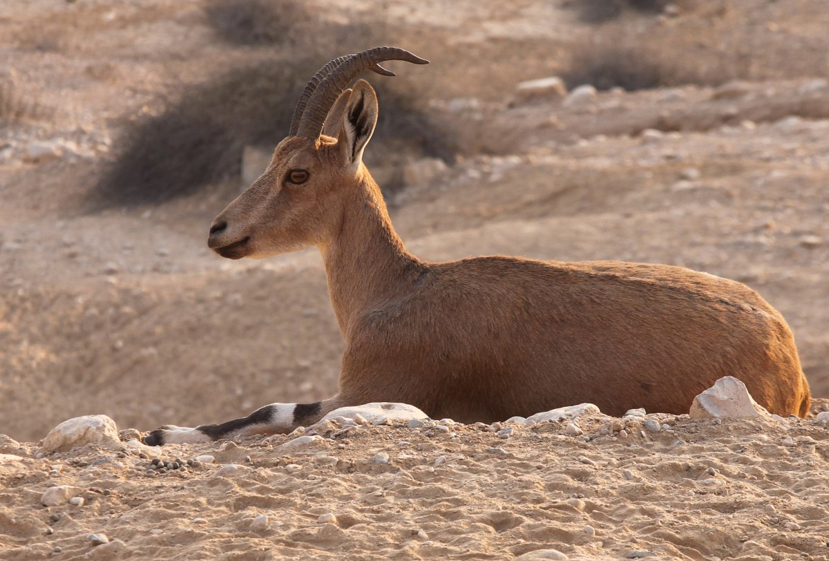 Female ibex in Israel